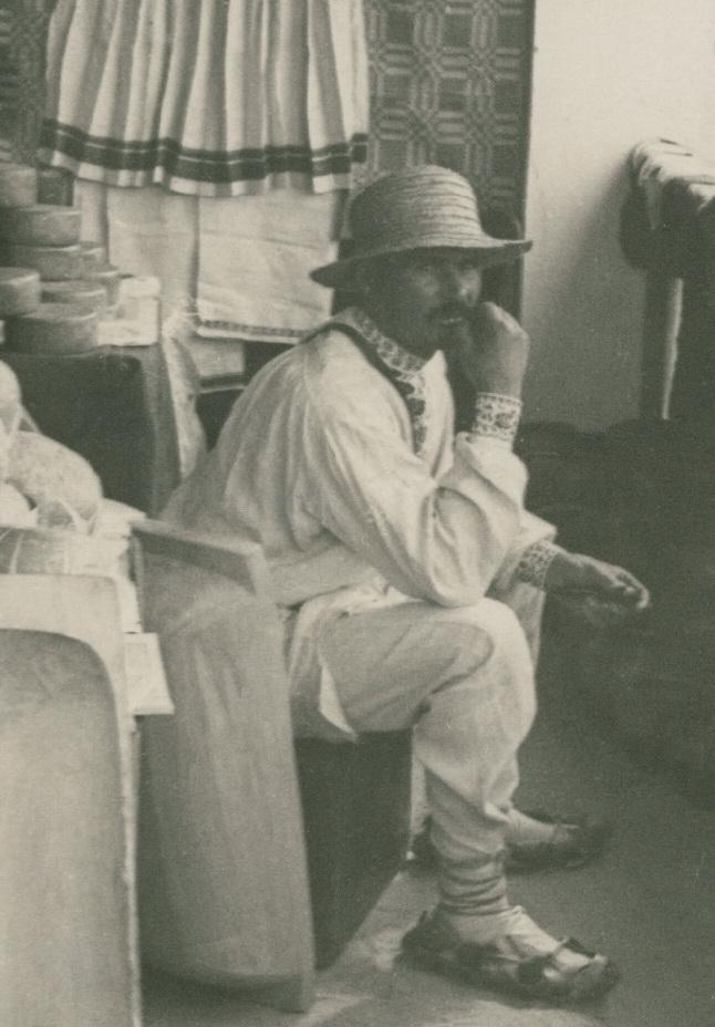 Postcard (crop): Belorussian trader at market in Pinsk city (Western Belarus, Poland), 1937 AD